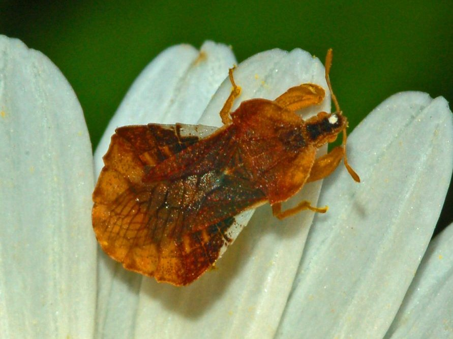 Phymata crassipes. Female